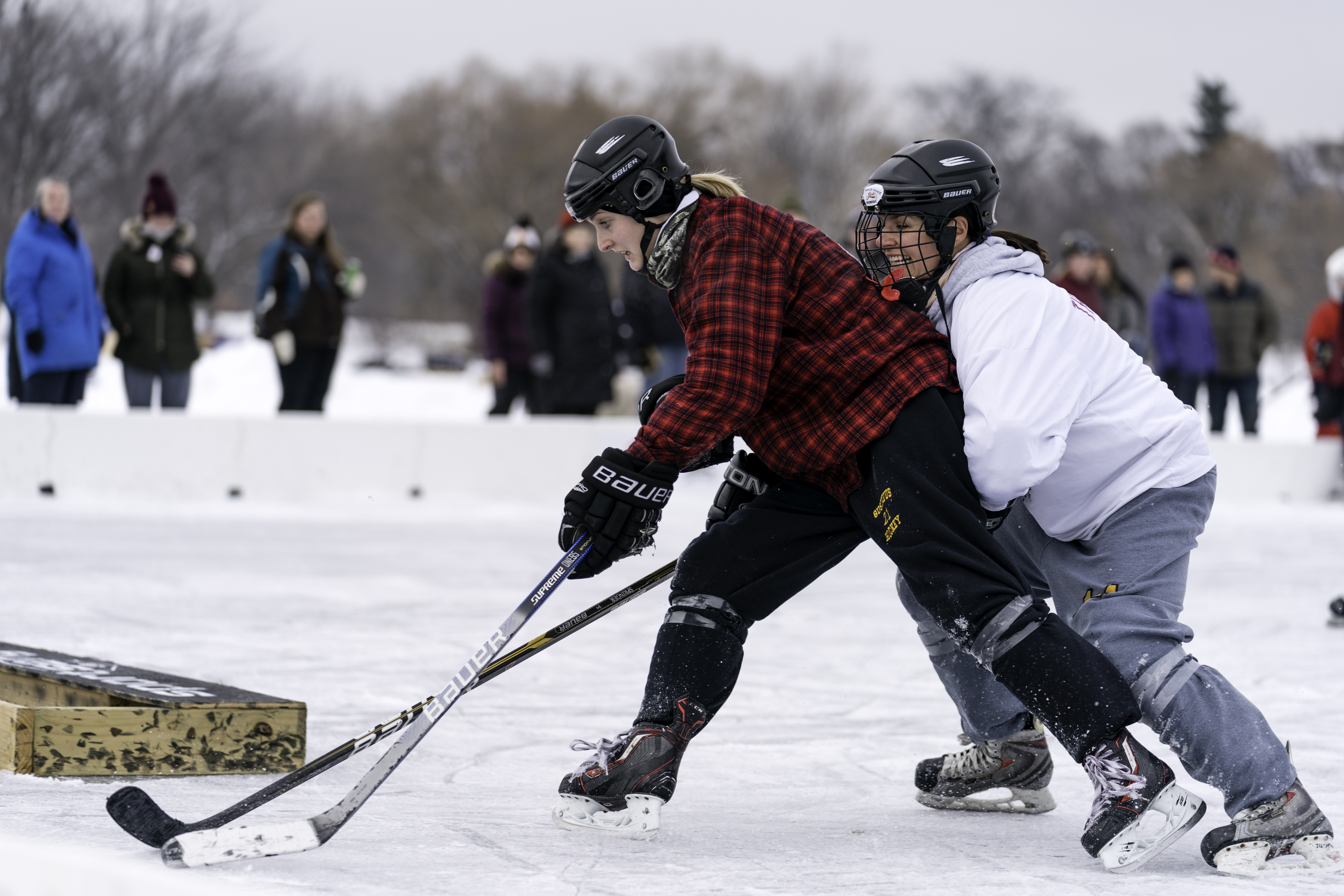 US Women's Pond Hockey finals at Lake Nokomis in Minneapolis, Minnesota; Consistently cuatro (plaid flannel) won 12 to 4 vs Top Shelf Tricks